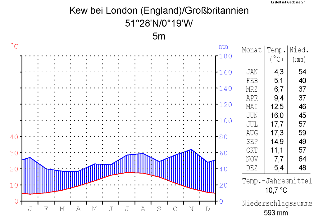 climate chart in the format by Walter and Lieth, metric, °Celsisus and millimeters, made with Geoklima 2.1